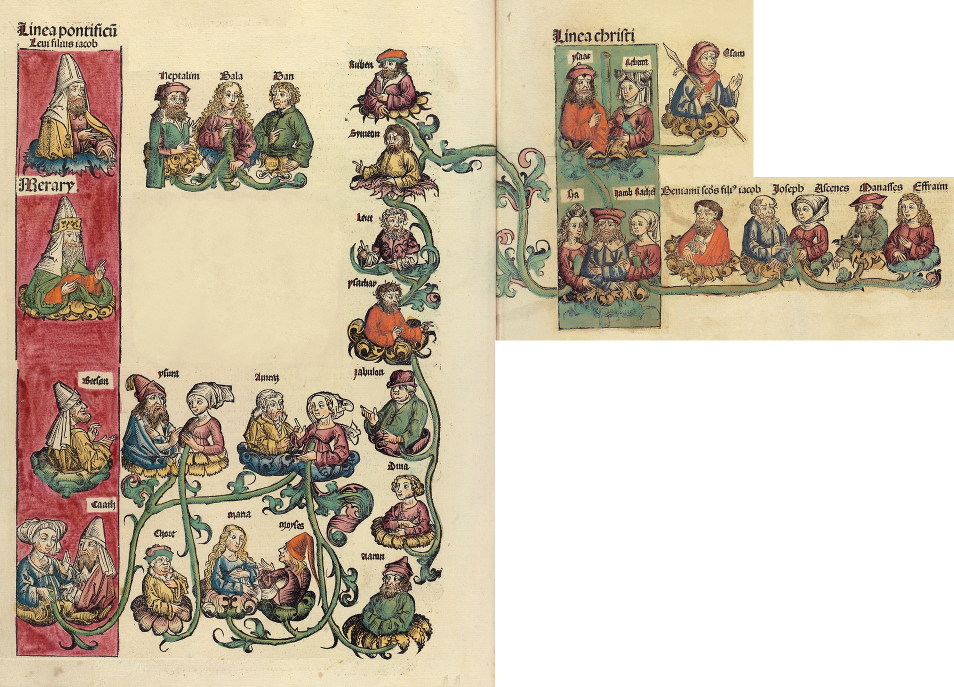 Woodcut from the Nuremberg Chronicle